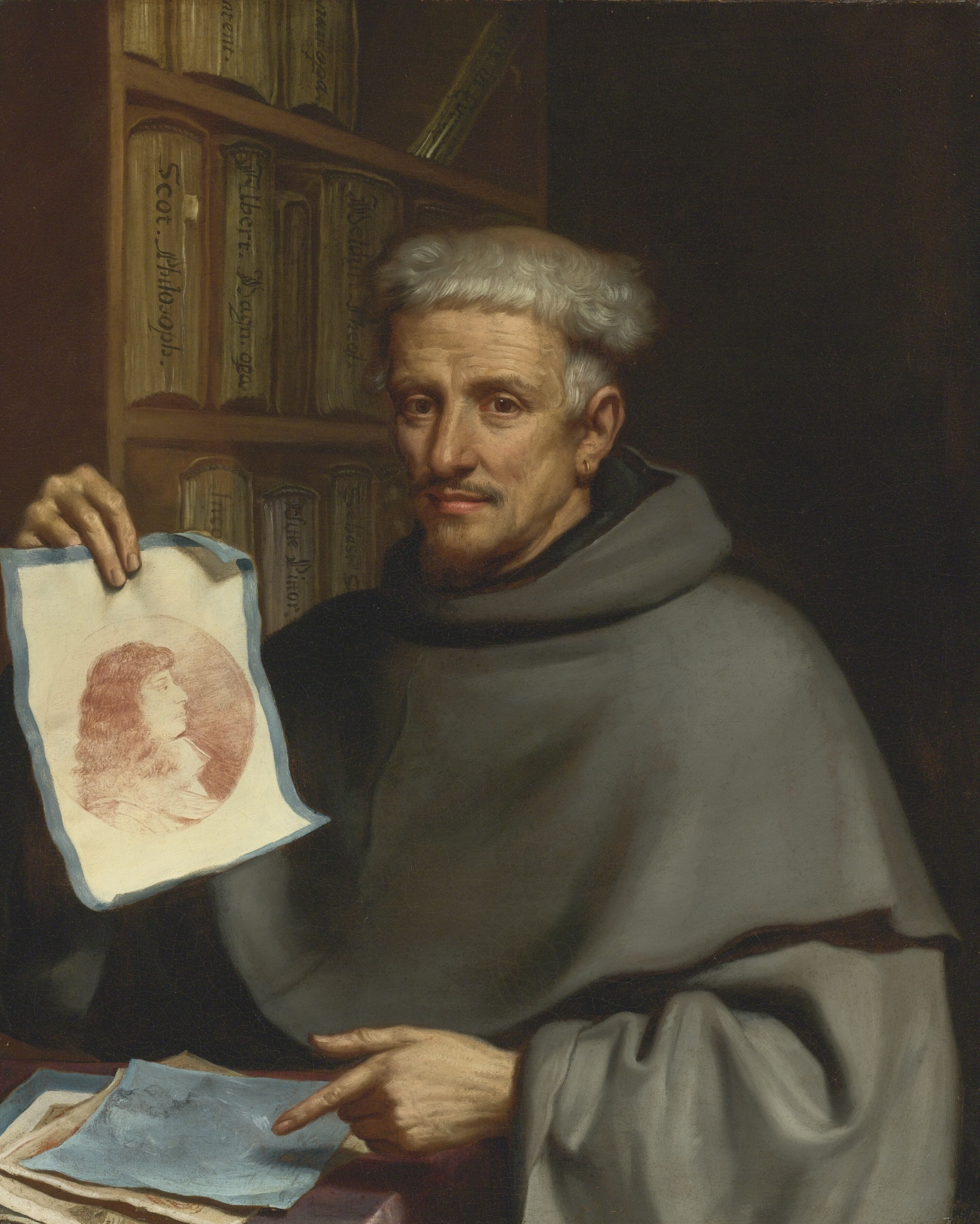 Giovanni Francesco Barbieri, called Guercino (1591-1666), PORTRAIT OF FRA BONAVENTURA BISI, CALLED "IL PITTORINO"